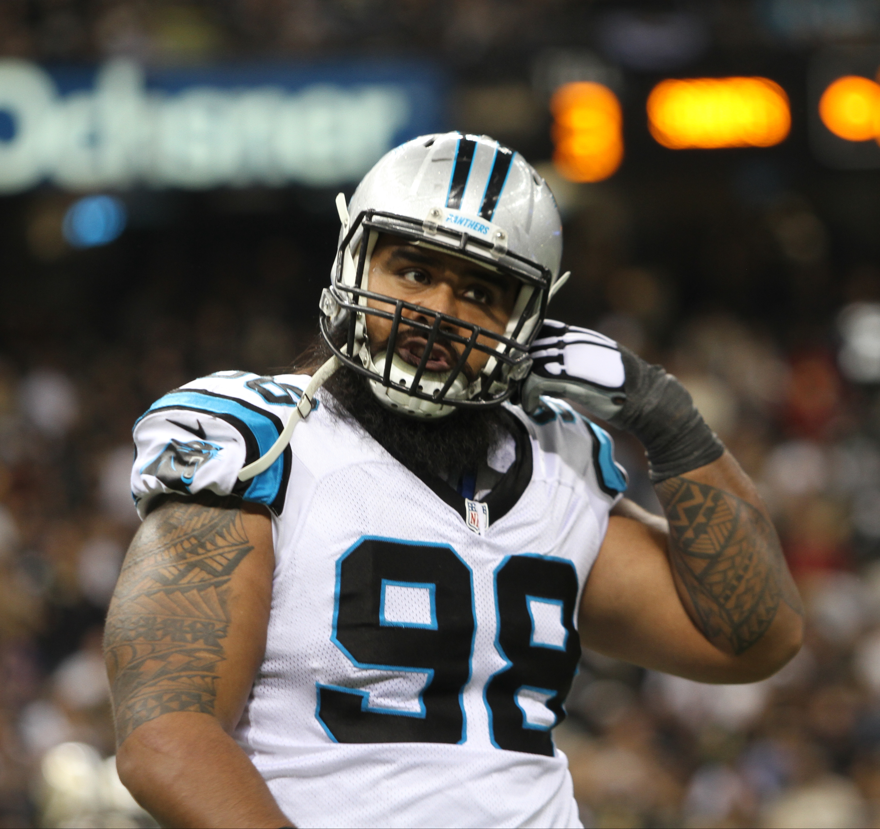 New Orleans Saints vs Carolina Panthers, December 6, 2015, Tammy Anthony Baker, Photographer